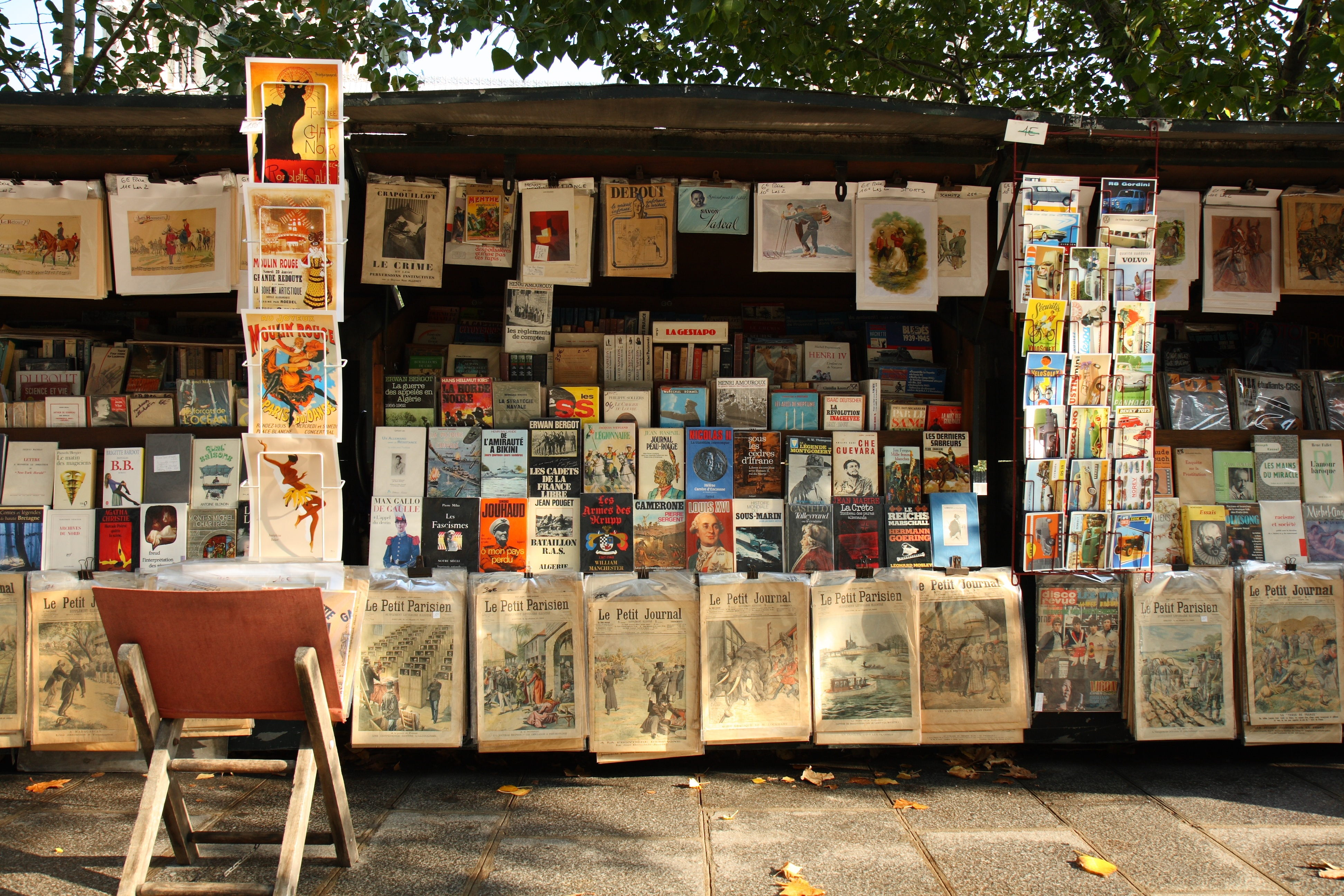 A stand of a bouquiniste (french term for second-hand books resellers) , in Paris, near the Cathedral Notre-Dame of Paris. Bouquinistes can be considered a landmark of Paris. There are nearly 250 of them, mainly located in the central area of the city, alongside the banks of the Seine river.